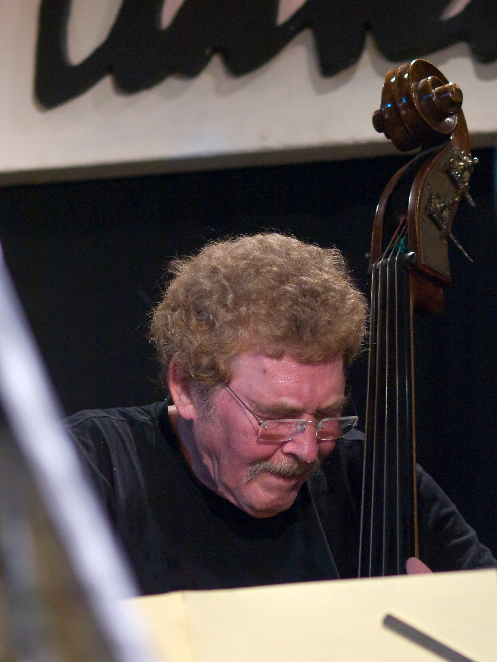 Günter Lenz, jazz bassist, picture taken in Jazz club "Unterfahrt" in Munich/Germany